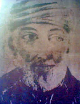 رسم تخيلي للإمام أحمد الرفاعي الكبير